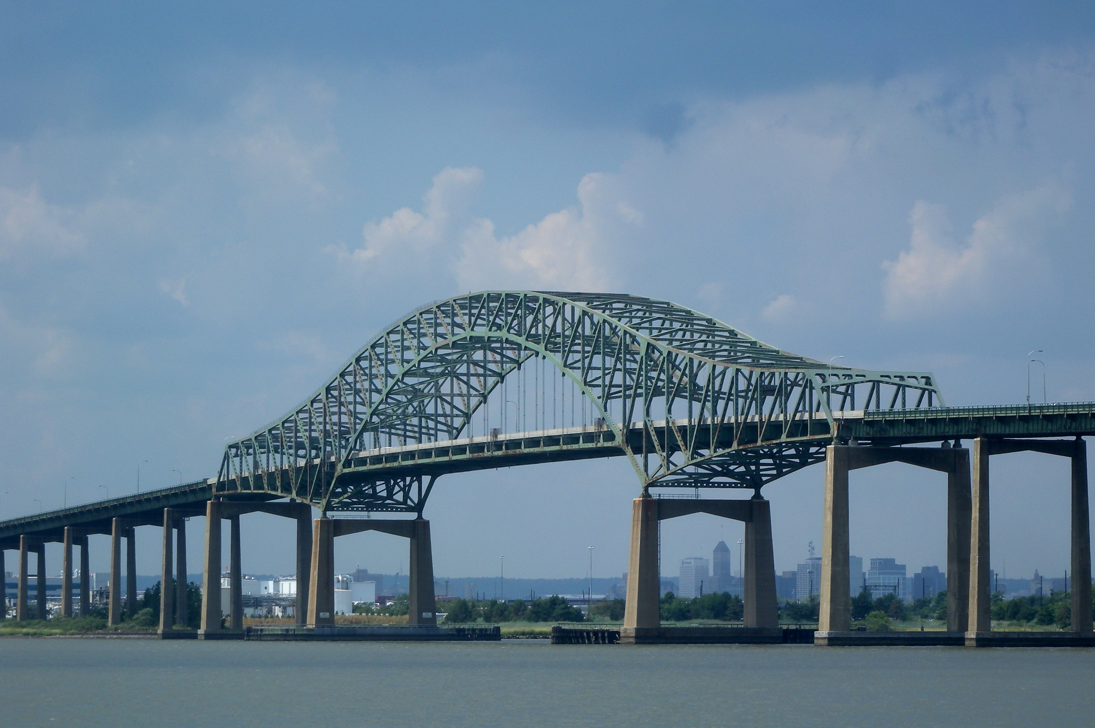 Looking northwest from hill in wetlands park in northwestern Bayonne, at bridge on a partly cloudy midday.